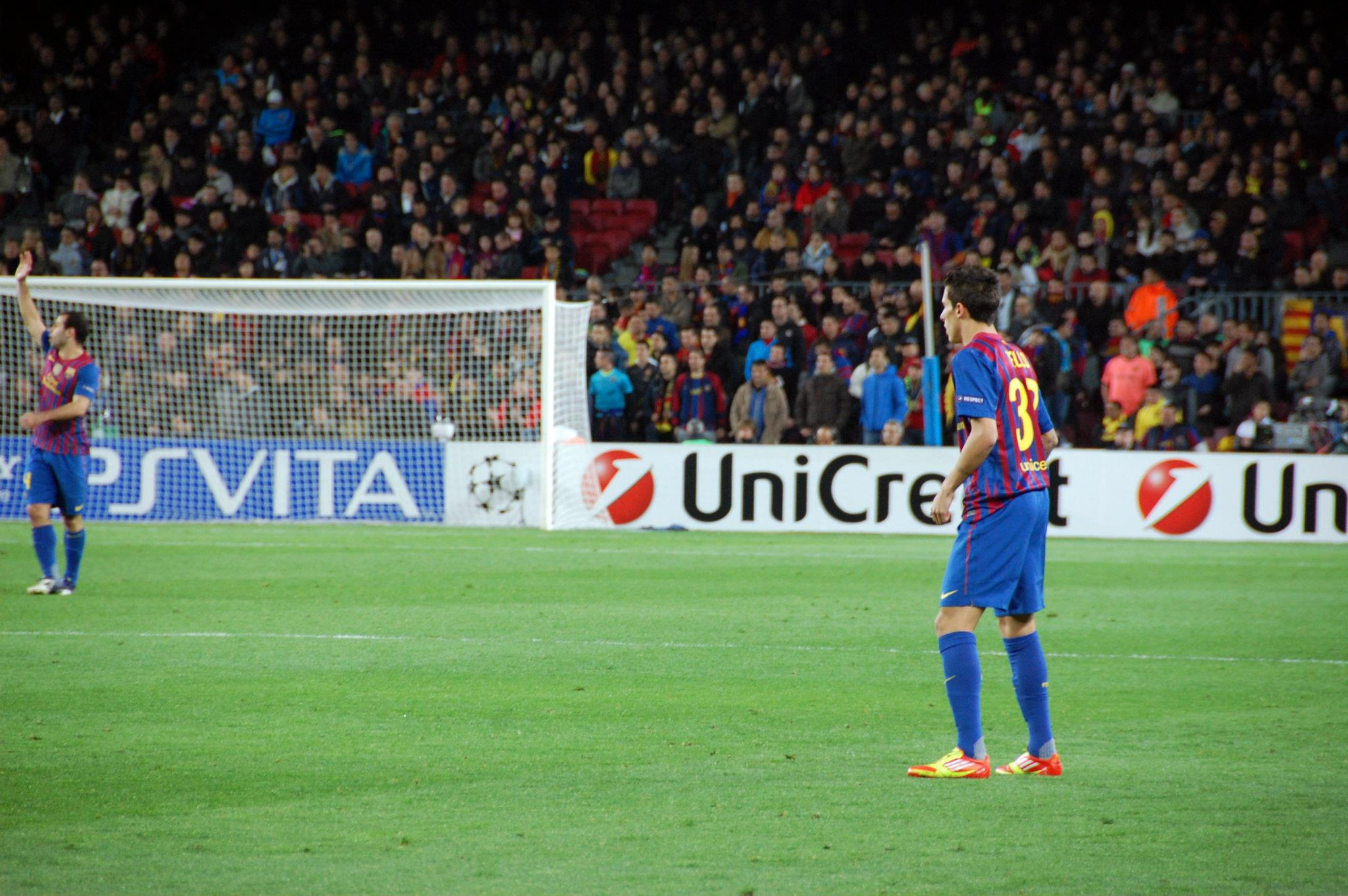 FC Barcelona - Bayer 04 Leverkusen, 1/8 Final UEFA Champions League, Season 2011/2012